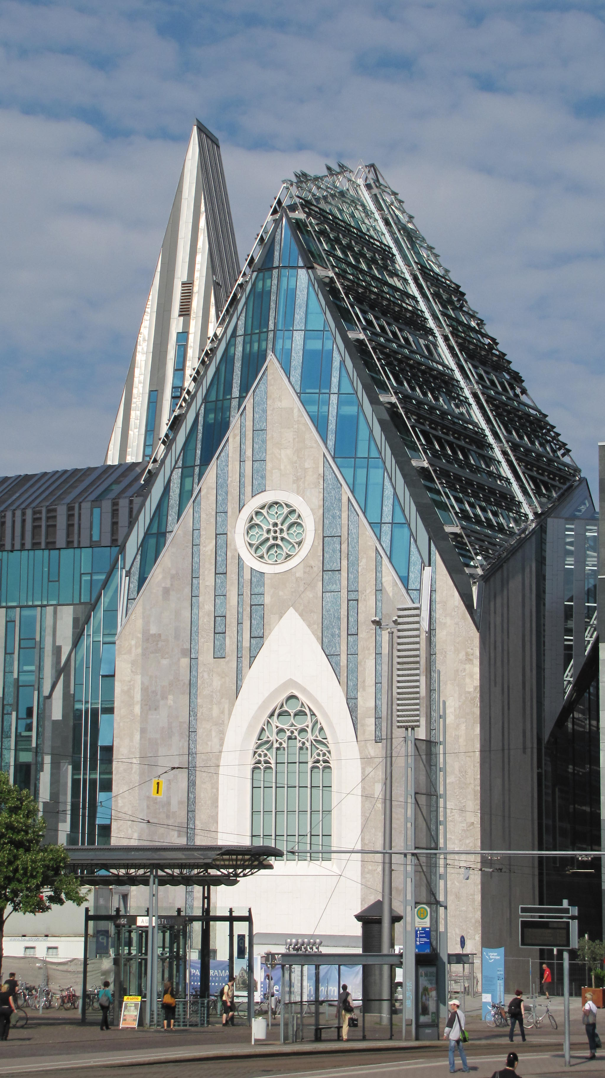 The Paulinum – Aula und Universitätskirche St. Pauli during construction, July 2012